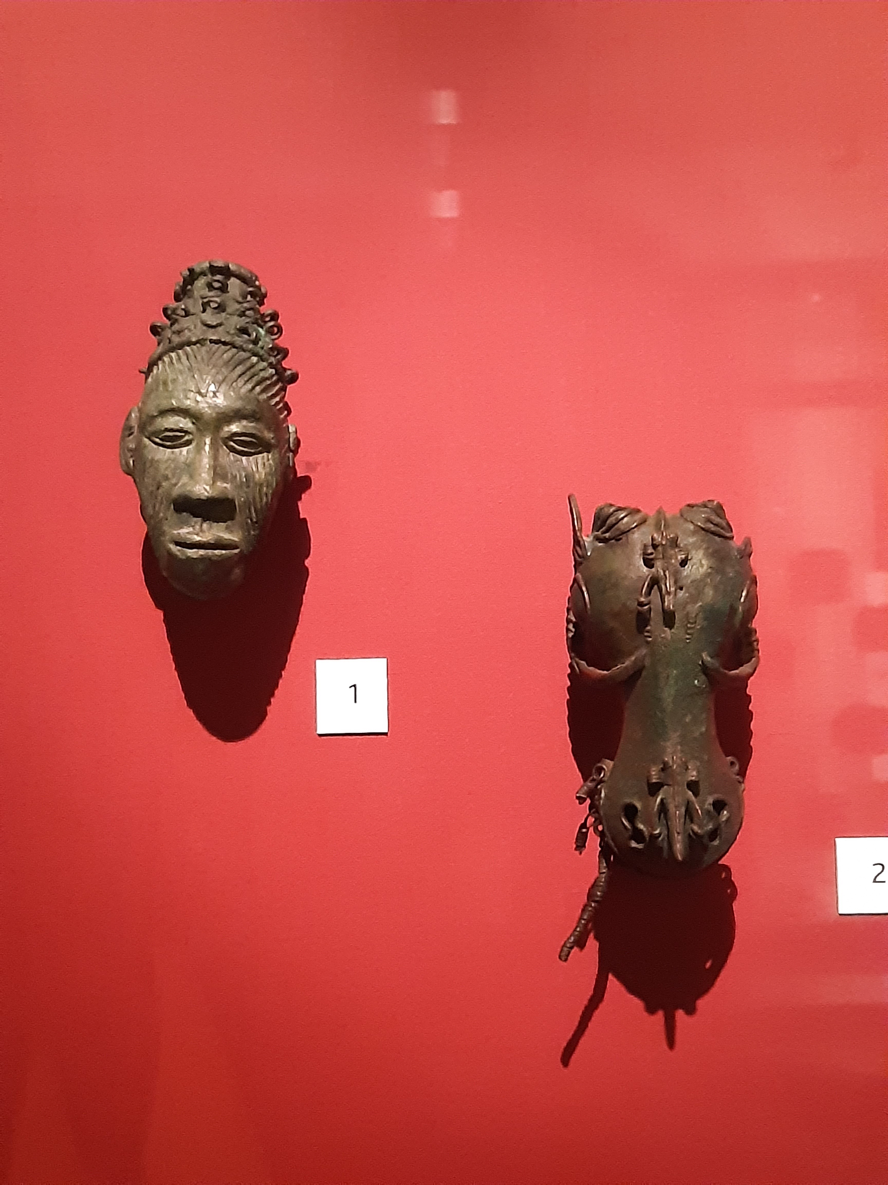 Bronze head and ram's head pendants from Igbo-Ukwu in the British Museum